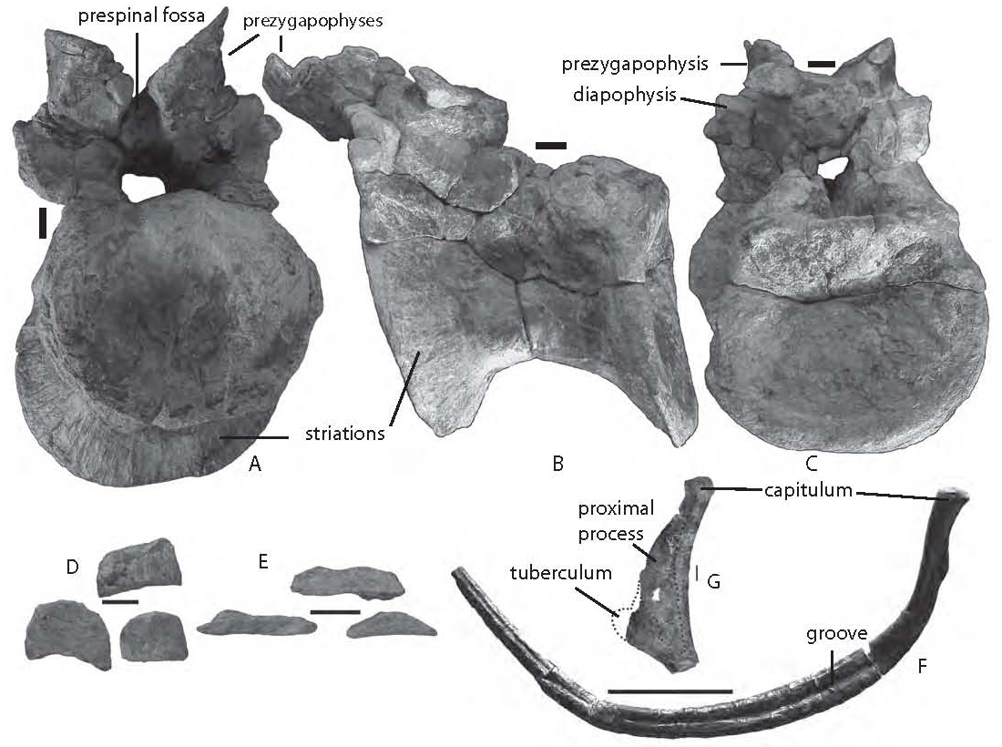 Ceratosaurian theropod Camarillasaurus cirugedae gen. et sp. nov. from the Camarillas Formation of Camarillas, Soria Province, Spain, presacral vertebra, MPG-KPC9, in anterior (A), left lateral (B), and posterior (C) views; possible neural spine tips, MPG1116, 32, 33 in ?posterior (D) and transverse (E) views; and presacral rib MPG-KPC7, in ventral view (F) and detail of its proximal end (G). Scale bars are 10 mm (A-C, G), 20 mm (D-E) and 100 mm (F).